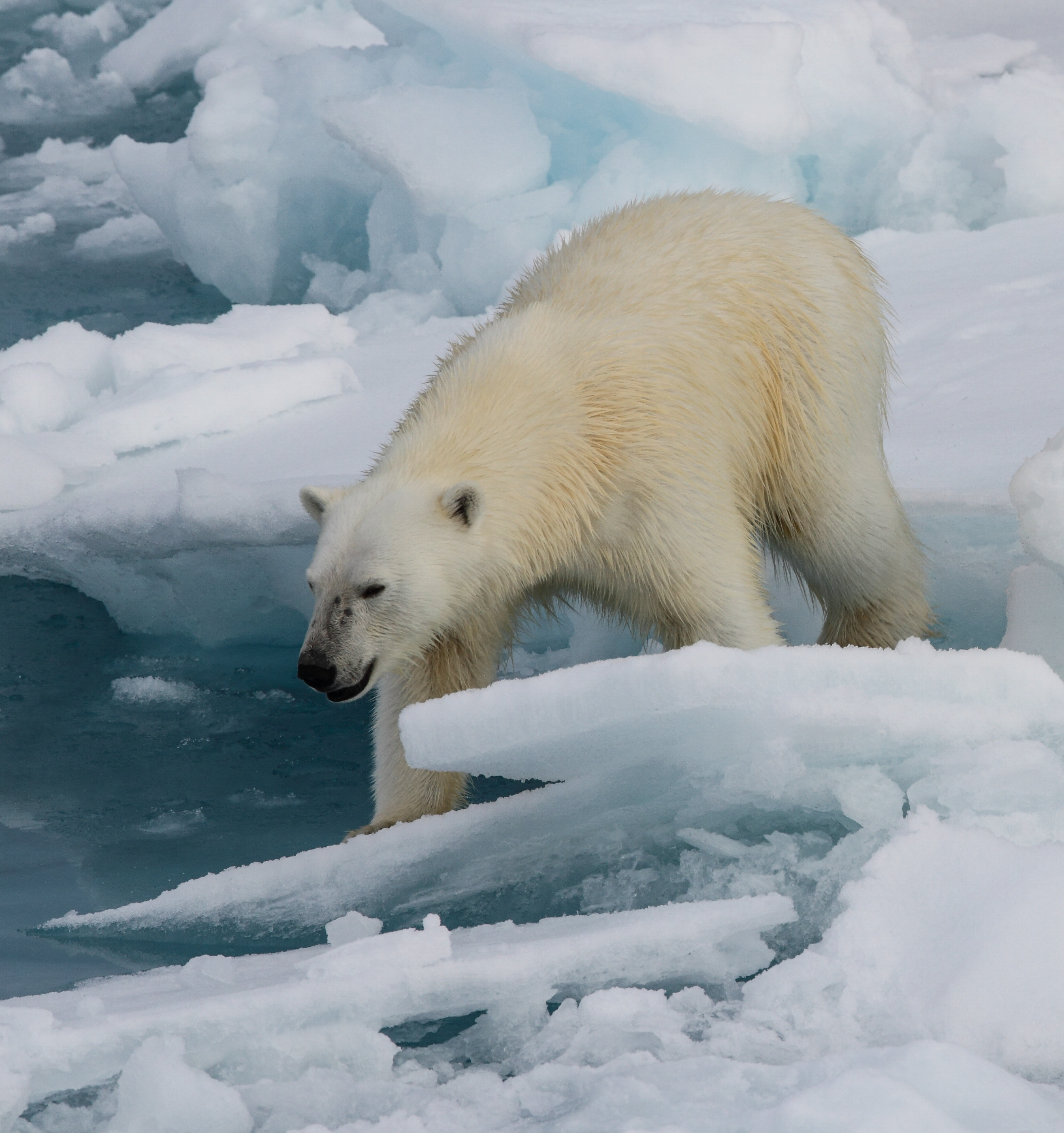 One of the many Ursus maritimus I encountered in Svalbard.